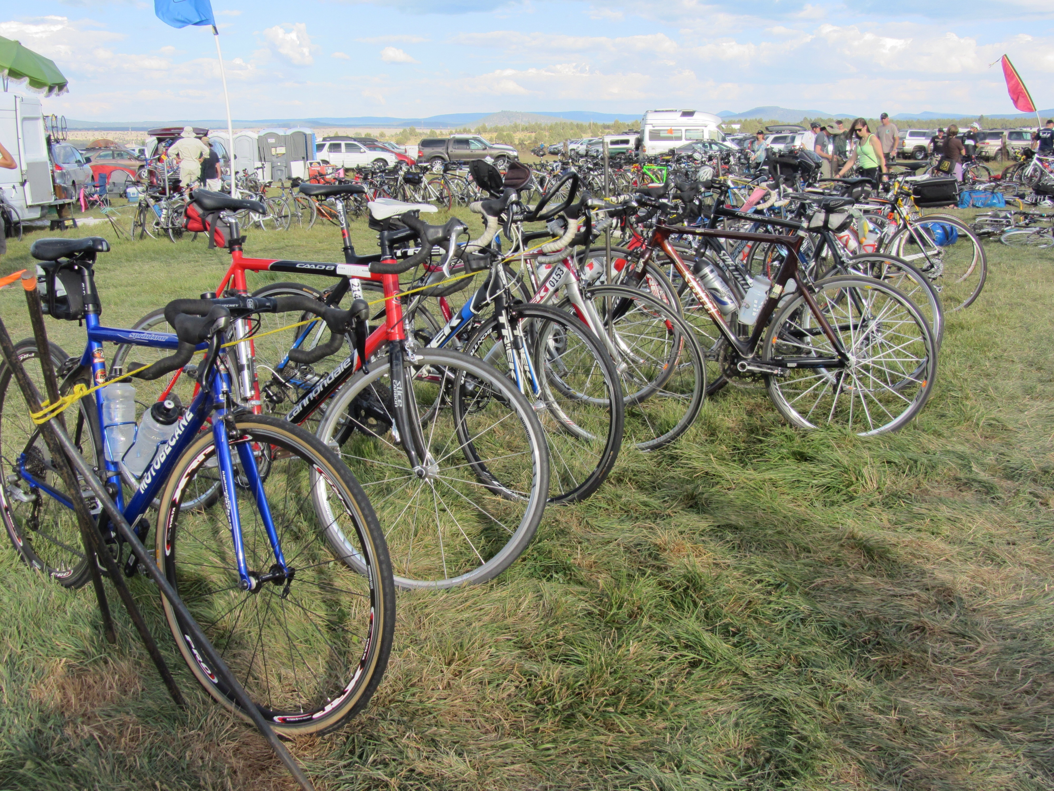 From the United States Bureau of Land Management's live blog on Cycle Oregon 2012: BLM/20112